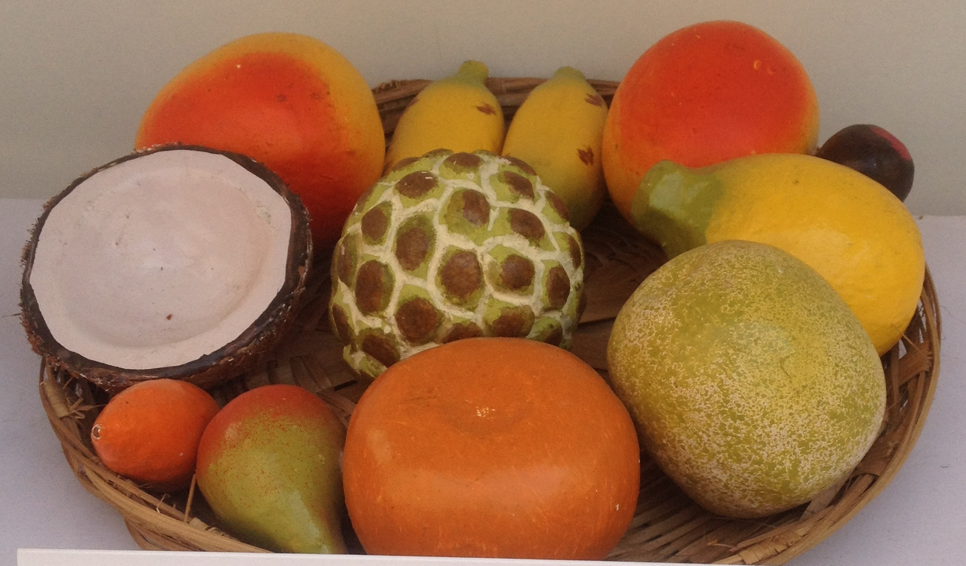 Handmade wooden toys made in Karnataka, India are popular and a unique art form. They were displayed at National Law University, New Delhi during global Congress 2015. This has been identified as a Geographical Indication from Karnataka and is promoted by the Make in India campaign of the Government of India.